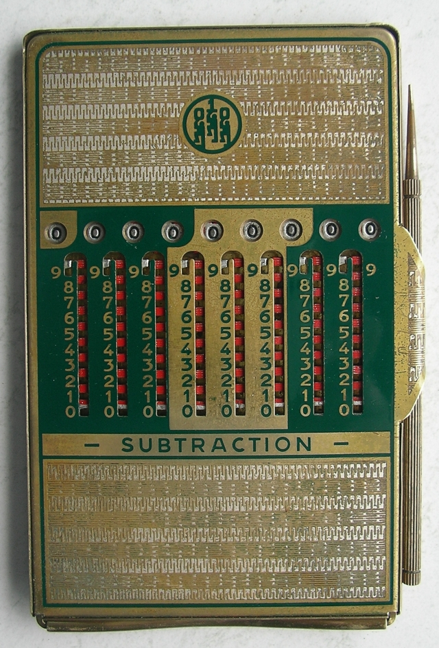 Addiator Duplex a mechanical calculator